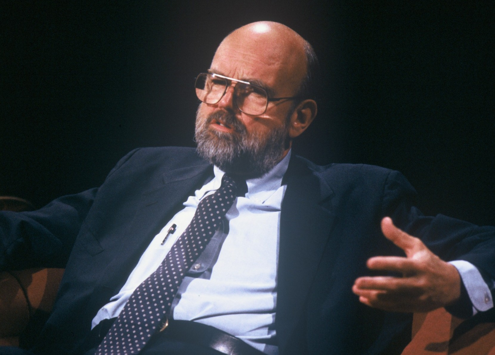 John Ehrlichman appearing on British tv programme After Dark on 5 June 1987 alongside Anthony Smith, Mary Midgley, Philip Bobbitt, Hugh Montefiore and Ann Burdus.